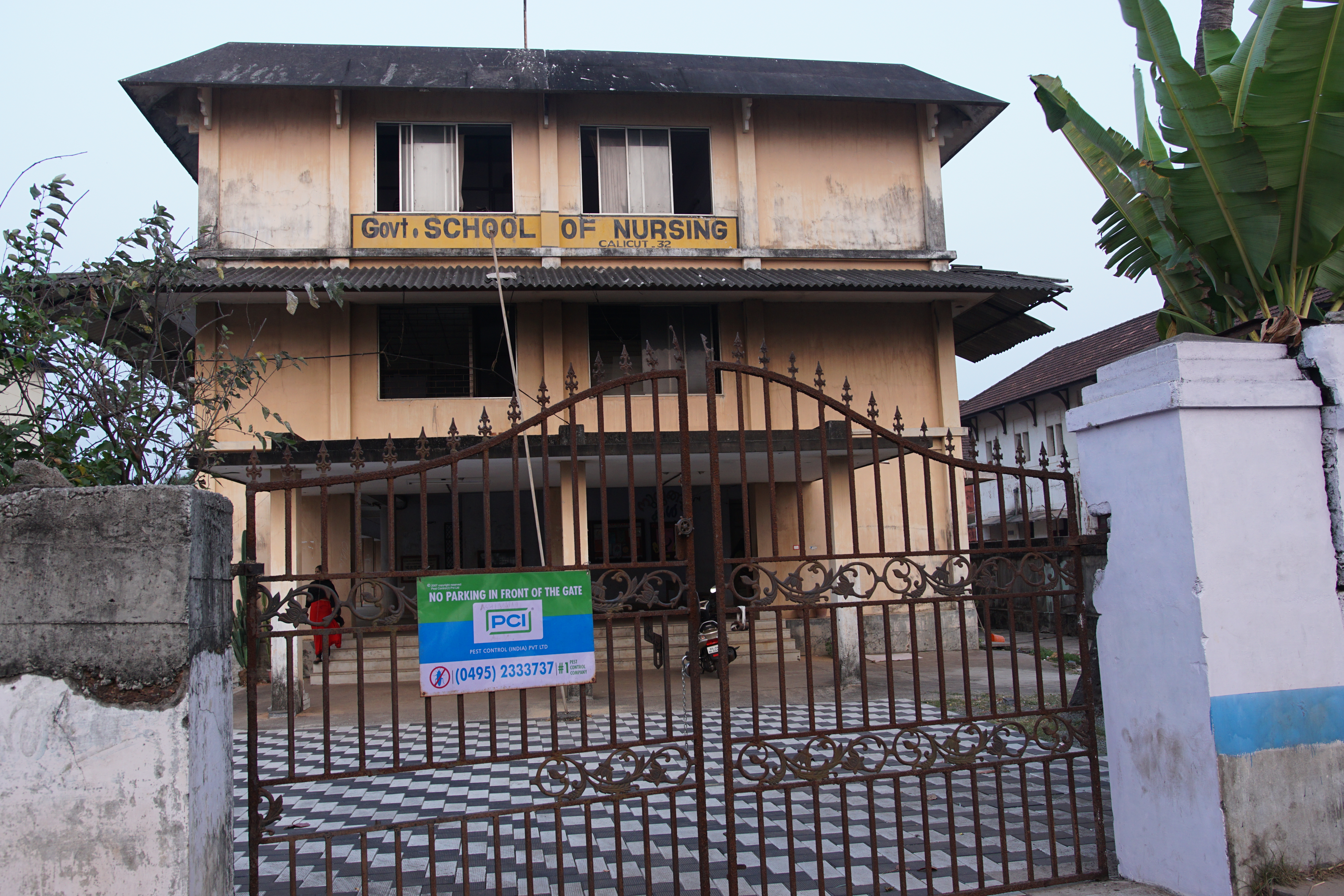 Kozhikode